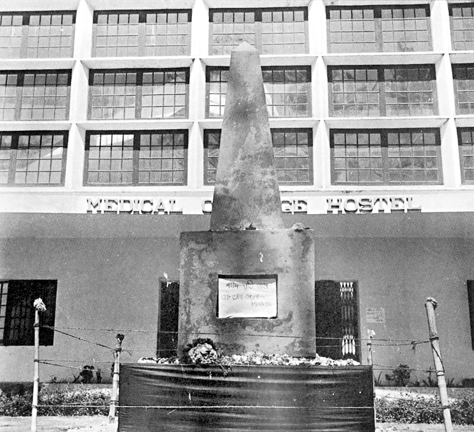 21st February, 1954. Shaheed Minar (martyrs' monument) on the second martyrs' day built in the Dhaka Medical College premise.